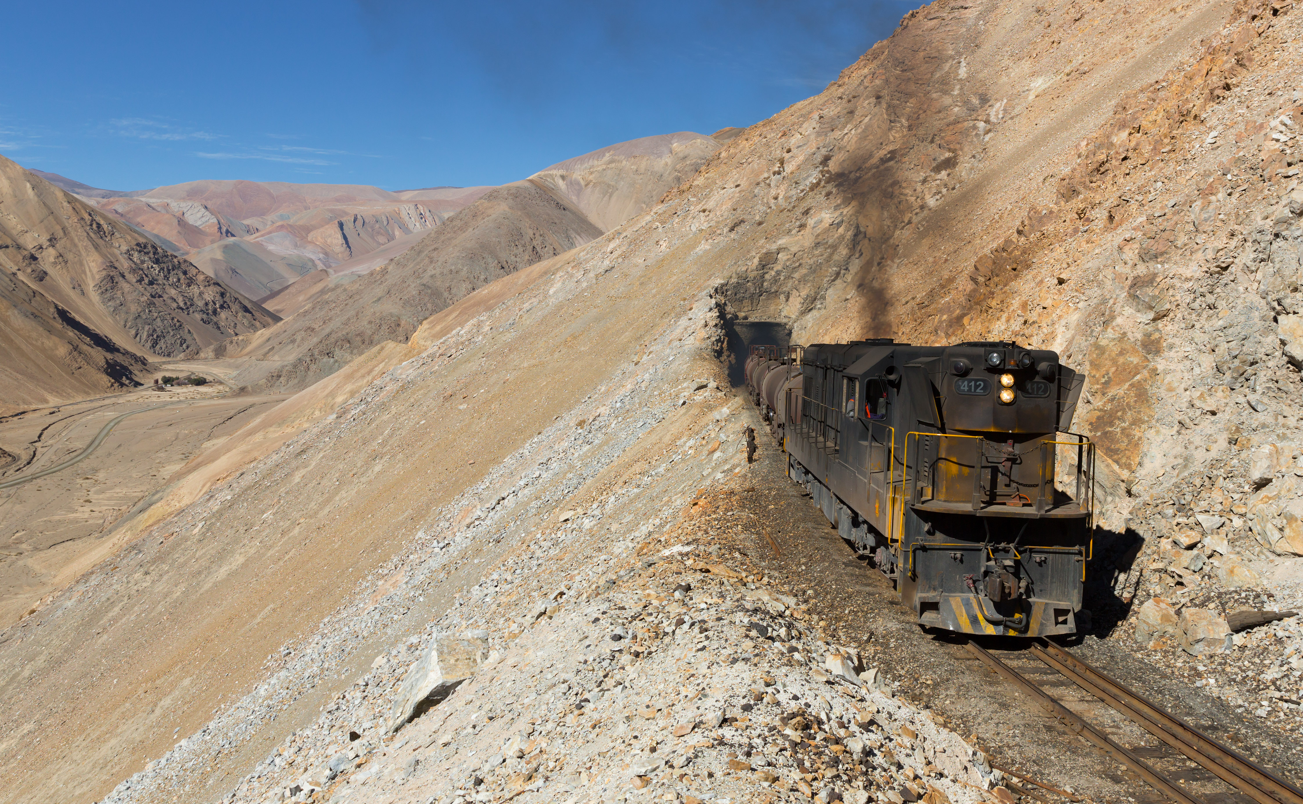 GR12U 412 hauls empty sulfuric acid tank cars on the grade between Montadon and Codelcos Potrerillos plant, Chile.